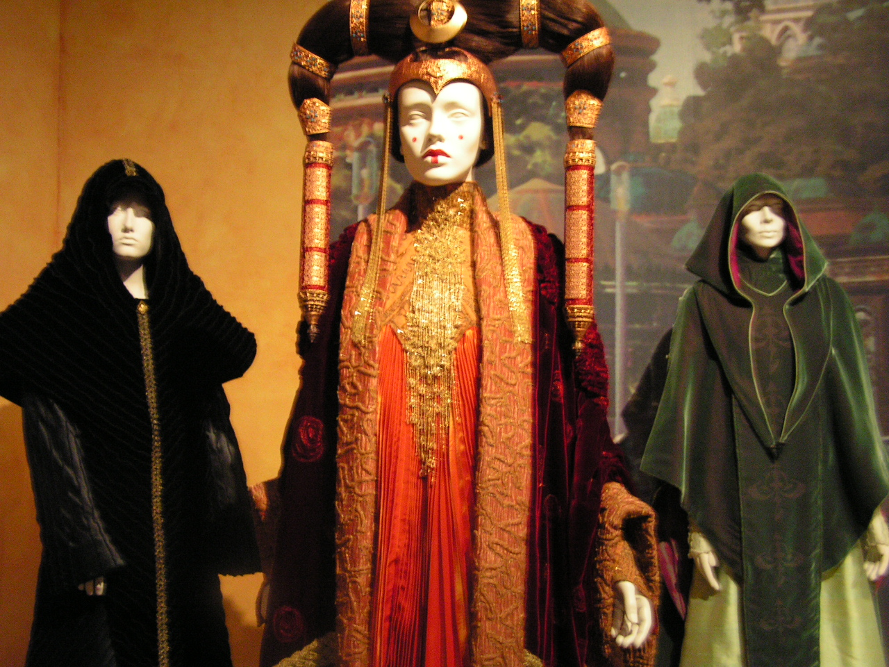 Queen Amidala's costume (Episode I): taken at the "Fashion of Star Wars" FIDM premiere